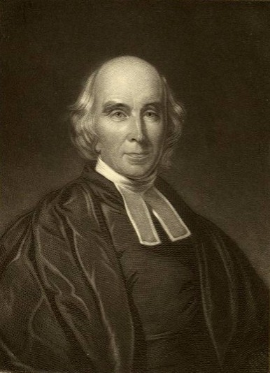 Portrait of James Haldane Stewart (1778–1854), American-Scottish cleric of the Church of England.